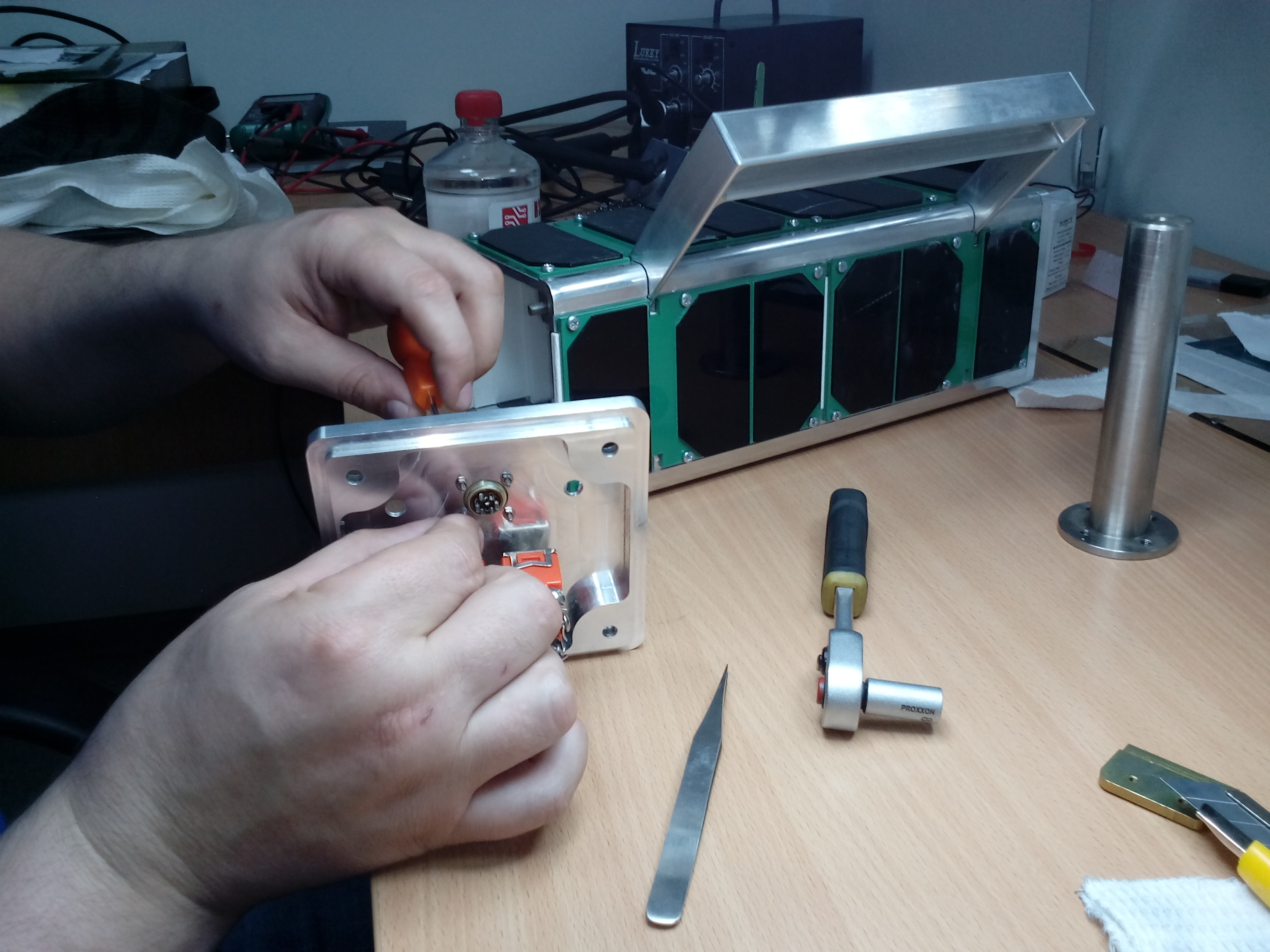 Assembly of CubeSat 3U nanosatellite TPU-120 Tomsk